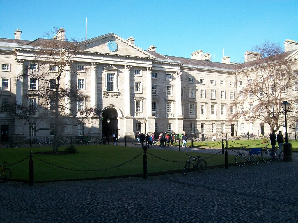 Regent House, TCD, from Parliament Square